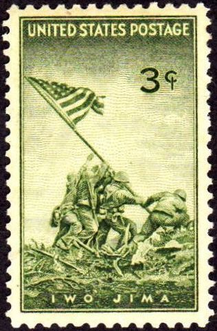 US Postage Stamp commemorating the Victory at Iwo Jima